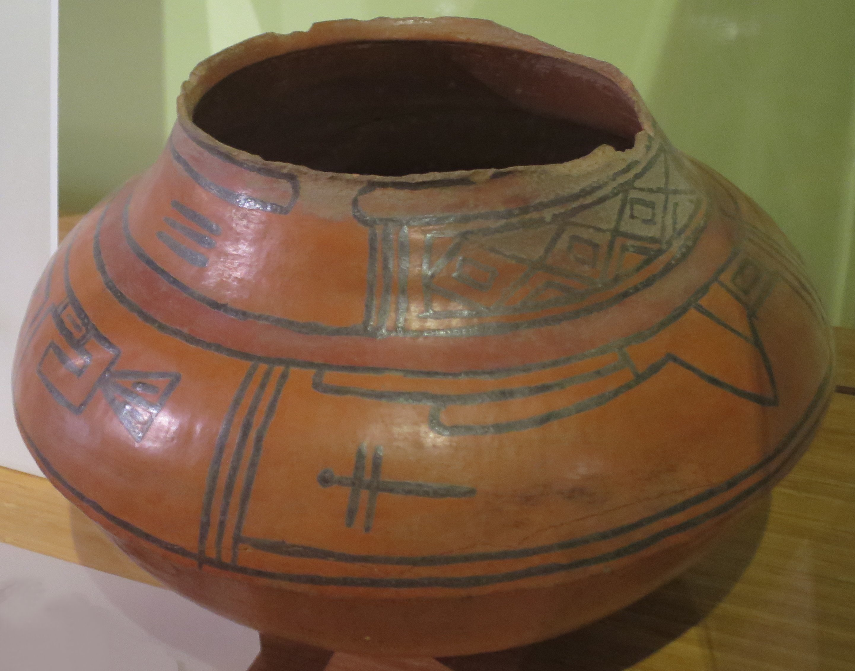 Ancestral Pueblo, San Lazaro glaze polychrome jar with dragonfly design, 1490-1550, Heard Museum